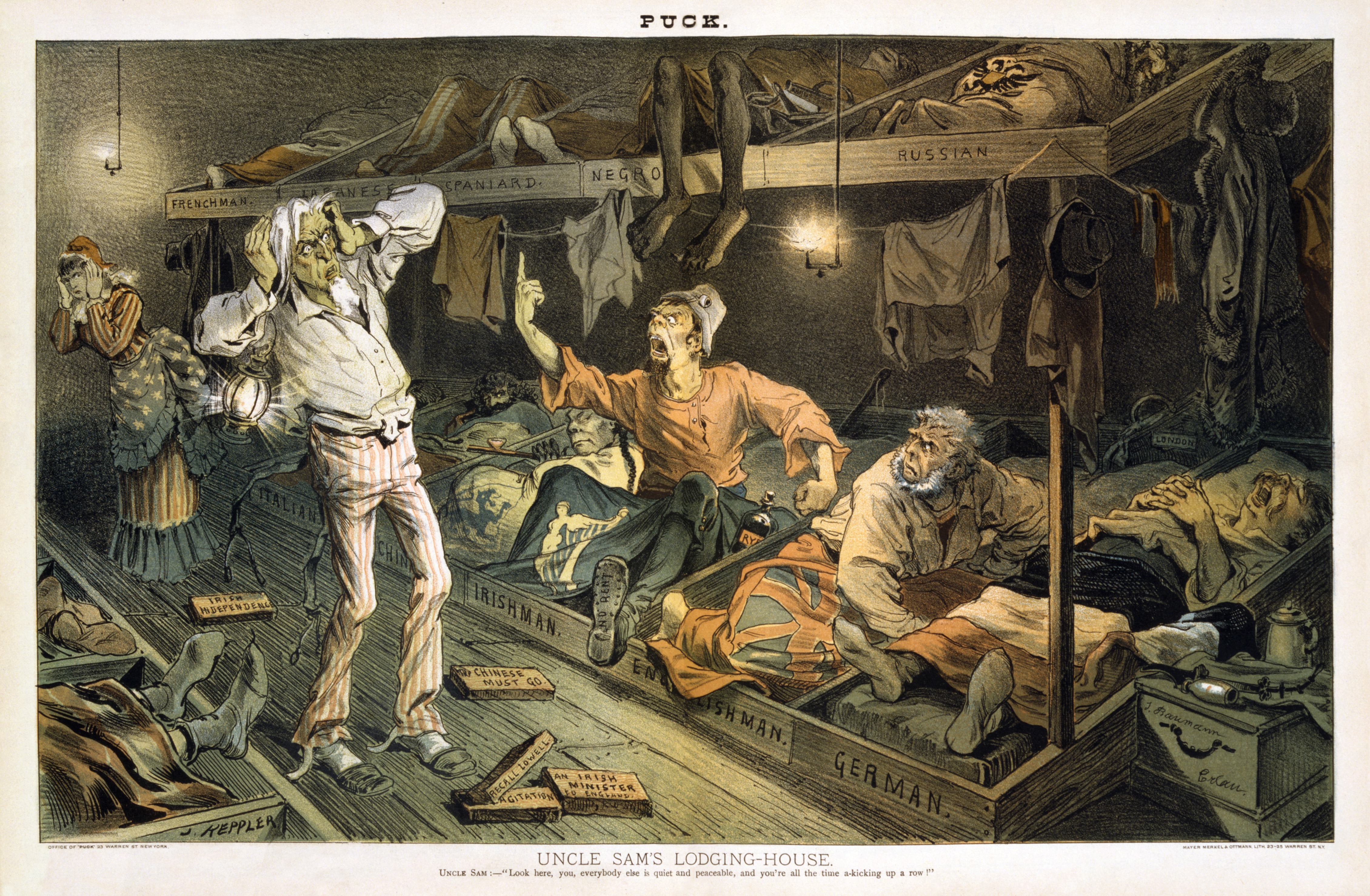 "Uncle Sam's lodging-house". Uncle Sam: "Look here, you, everybody else is quiet and peaceable, and you're all the time a-kicking up a row!" Illus. in: Puck, v. 11, no. 274 (1882 June 7), centerfold. Print shows an Irishman confronting Uncle Sam in a boarding house filled with laborers, immigrants from several countries who are attempting to sleep; the "Frenchman, Japanese, Negro, Russian, Italian," and "German" sleep peacefully. The "Irishman" kicks up a row. He has a bottle of rye whiskey at his side. Bricks are on the floor labeled "The Chinese must go," "Recall Lowell," "Agitation", "An Irish Minister to England", and "Irish independence". Uncle Sam and Columbia hold their hands over their ears in reaction to the "Irishman"'s loud tirade. He disturbs a "Chinese" man and an "Englishman," who are in the berths next to him.